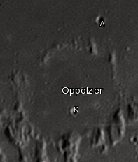 Oppolzer lunar crater as seen from Earth with satellite craters labeled